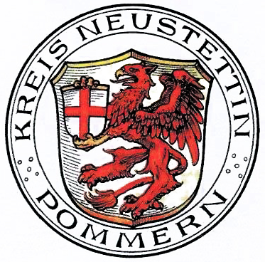 Coat of Arms of former Neustettin County